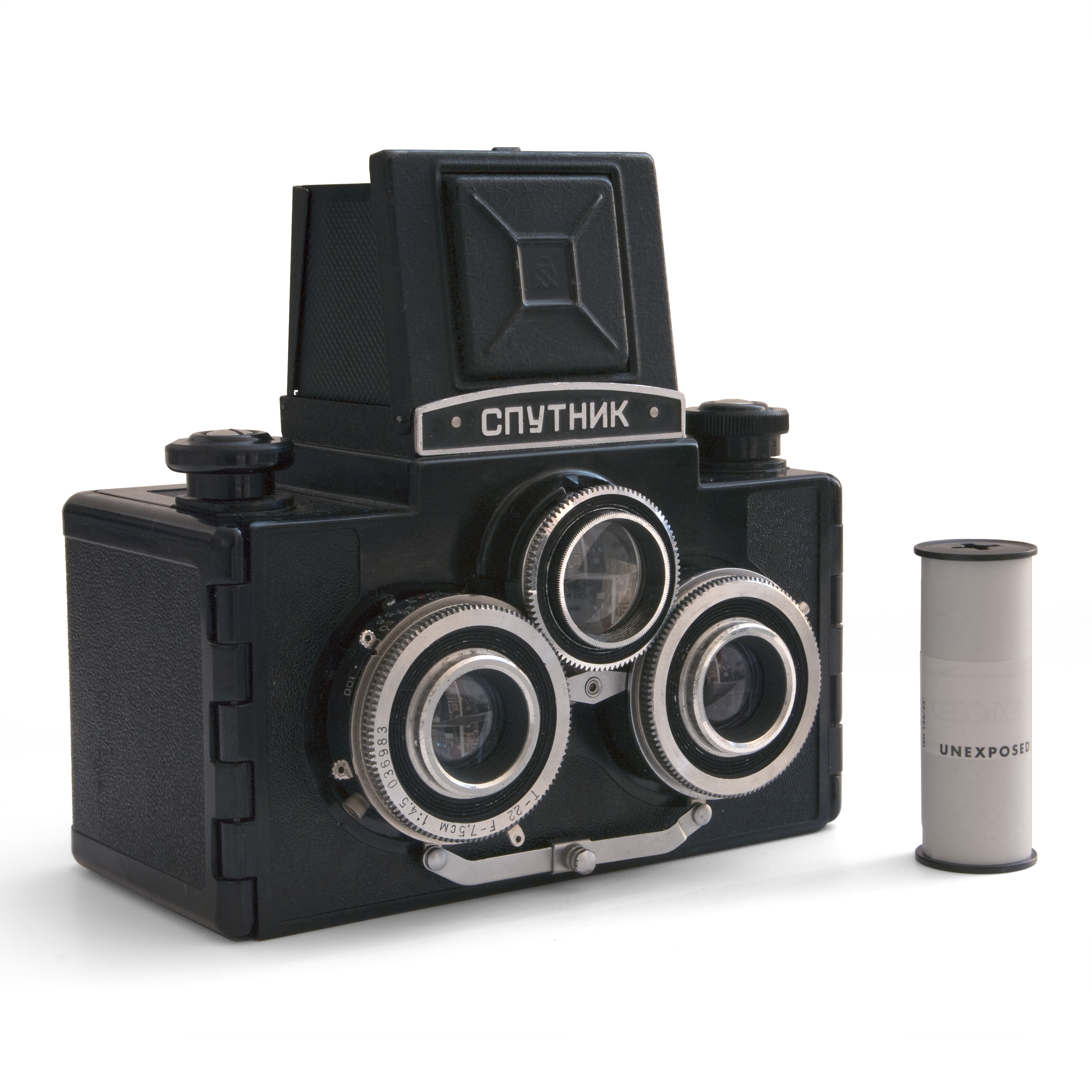 A Sputnik medium format stereo camera. The twin lower lenses take the picture, recording it on 120 roll film, while the middle lens is used to compose the shot through the top-down viewfinder. The lever on the front at the bottom of the camera is used to control the aperture of the two lenses, while the levers on the side of the lens are, going anti-clockwise from the top, the shutter release, timer and shutter speed selector. The gears connect the three lenses, so that focusing one moves all three in unison. 120 (medium format) roll film provided for scale.